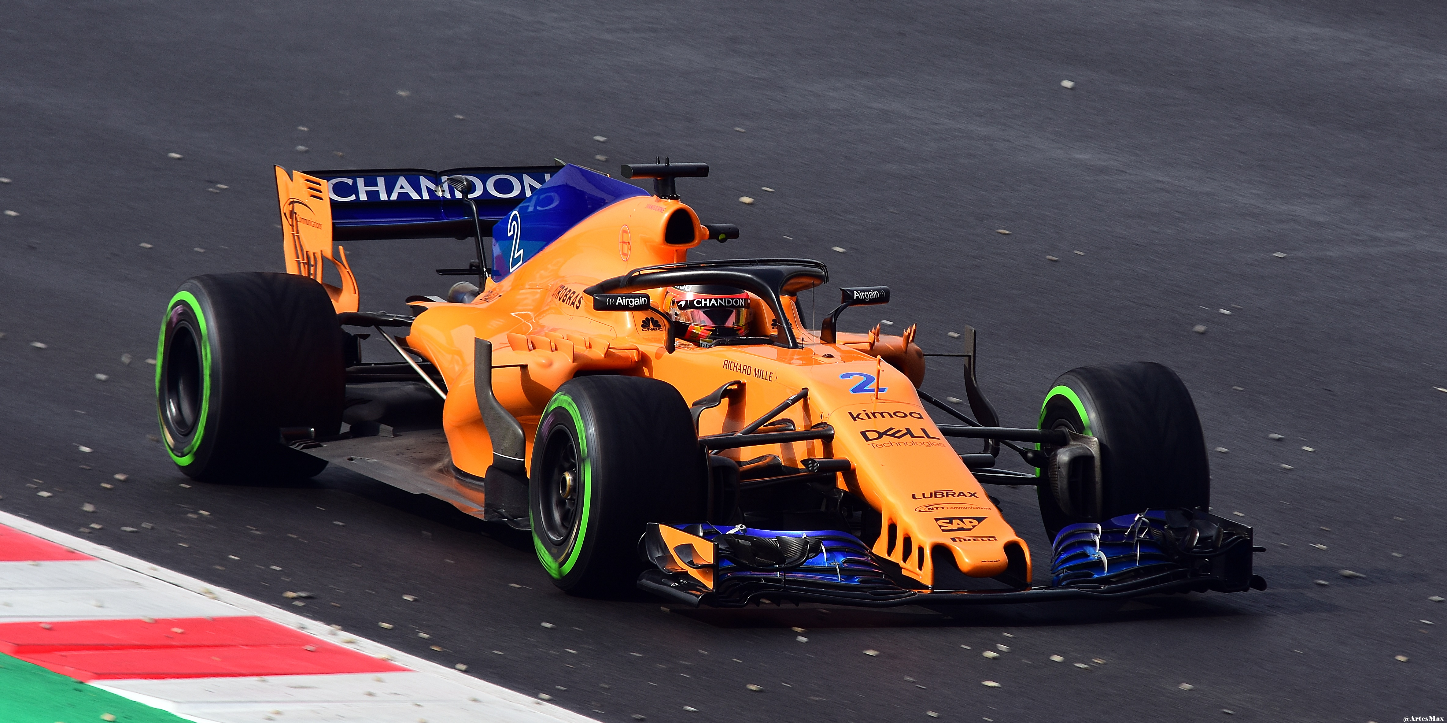 Stoffel Vandoorne testing the McLaren MCL33 during pre-season testing in Barcelona.